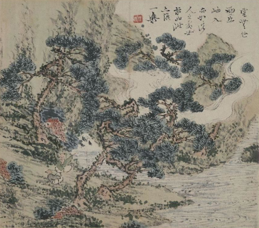 Matamata Ichiraku jo by Tanomura Chikuden, Neiraku Museum, Nara, Nara, Japan